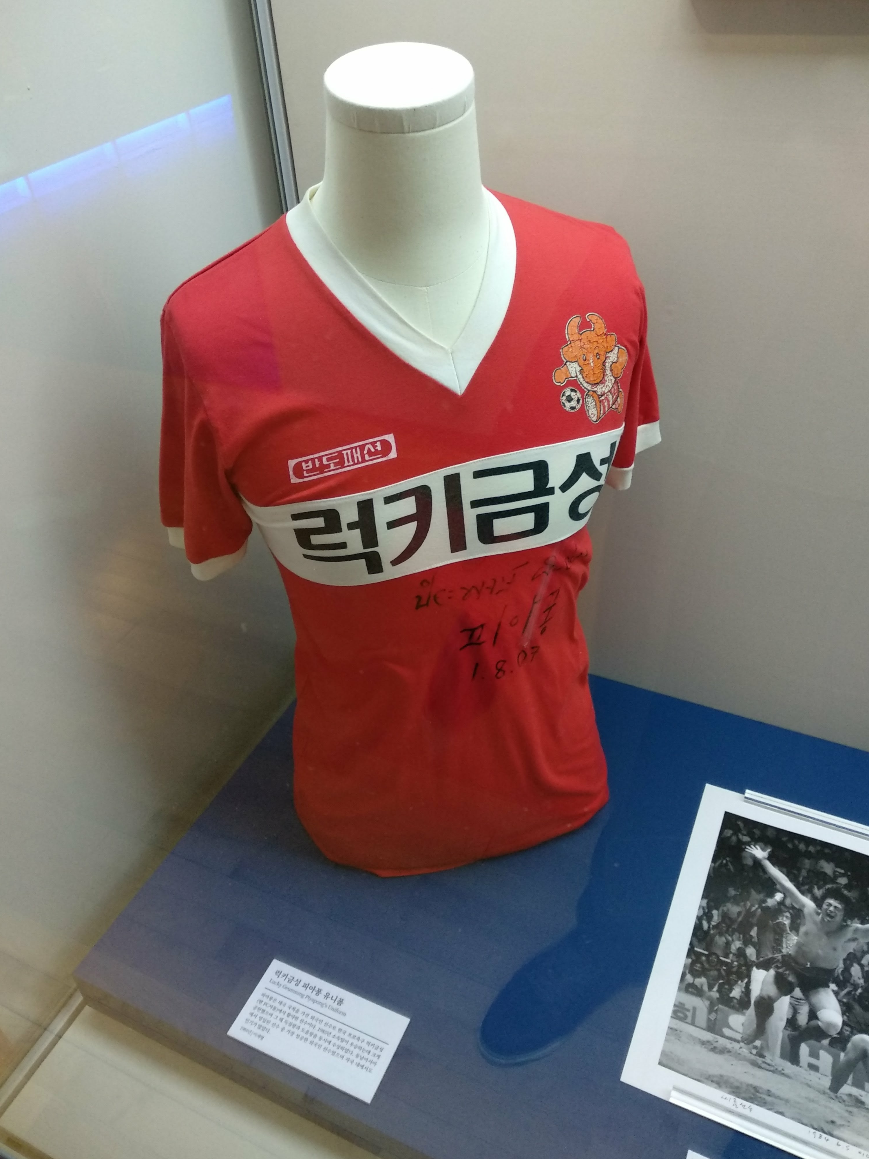 Lucky-Goldstar FC Piyapong Pue-on's Uniform exhibited at the National Museum of Korean Contemporary History(Korean Modern Sports History Exhibition, Celebrating the Pyeongchang Olympic Winter Games/Korean Sports, A History Written in Sweat)